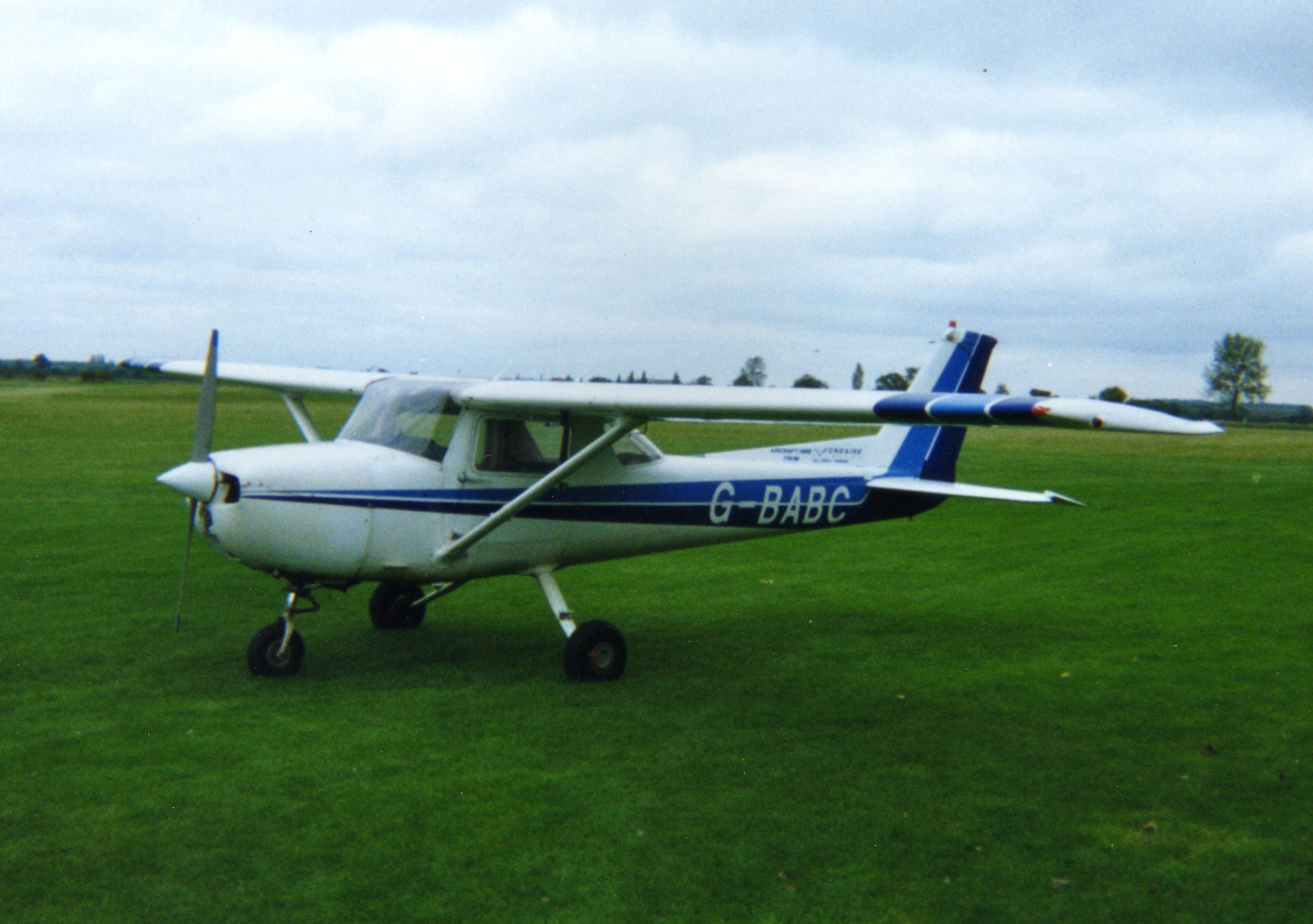 A Reims Cessna F150L pictured at Little Gransden Airfield in Cambridgeshire, England